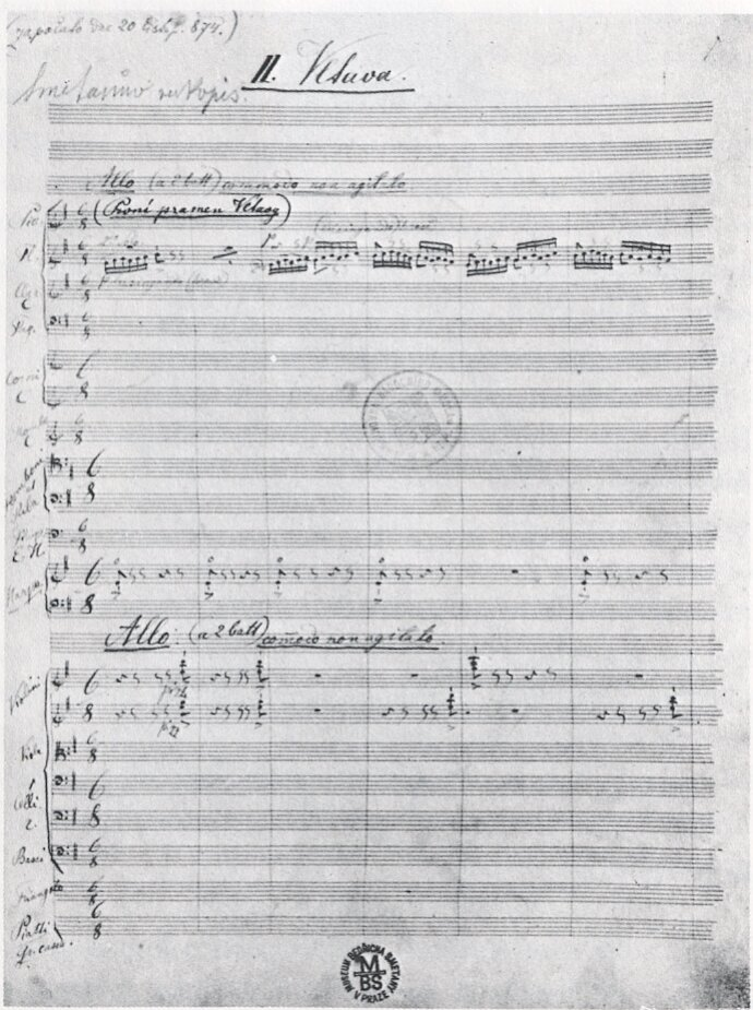 Autograph of the Bedřich Smetana's symphonic poem Vltava (Moldau) - title page